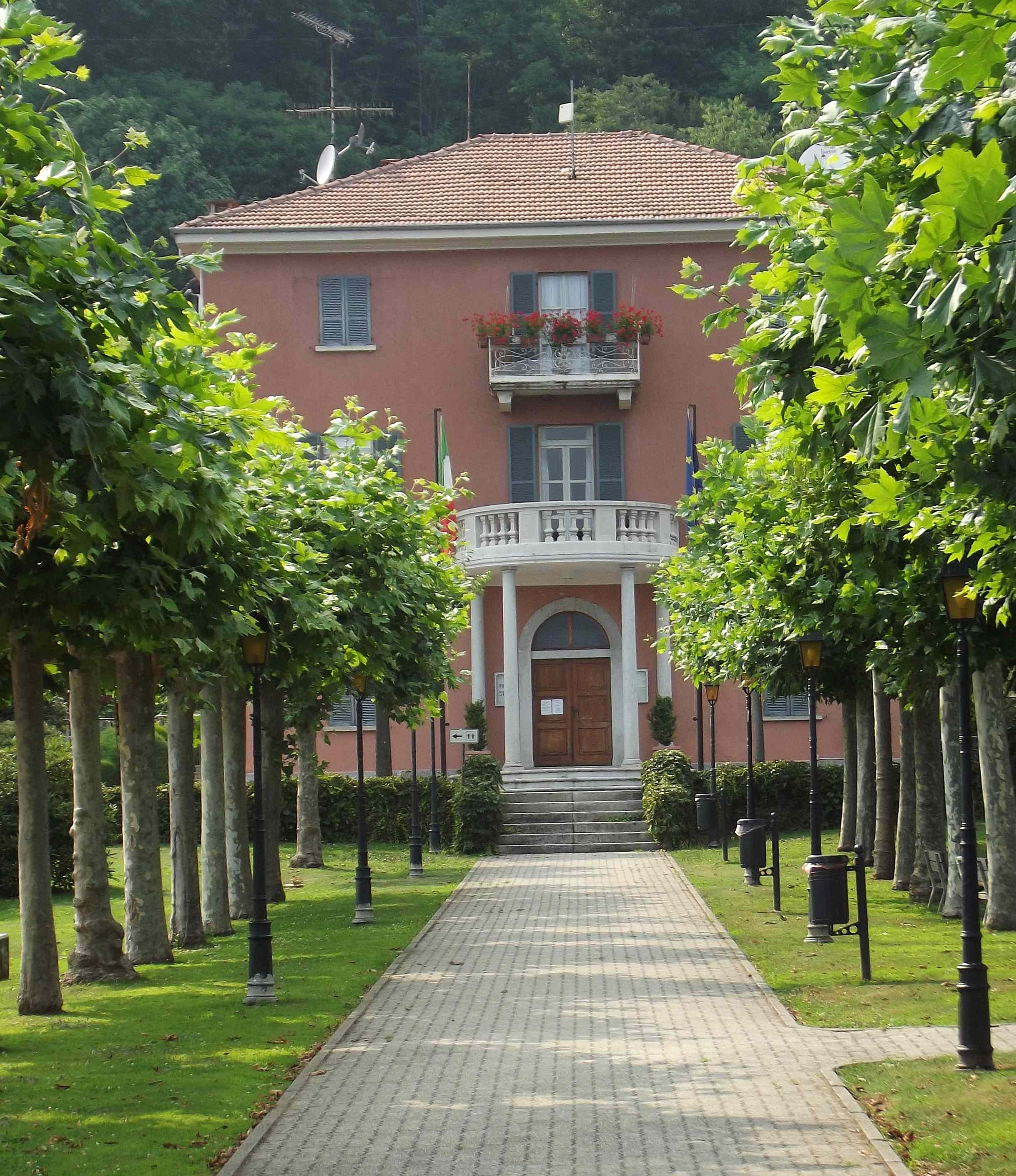 Pella (NO, Italy): town hall